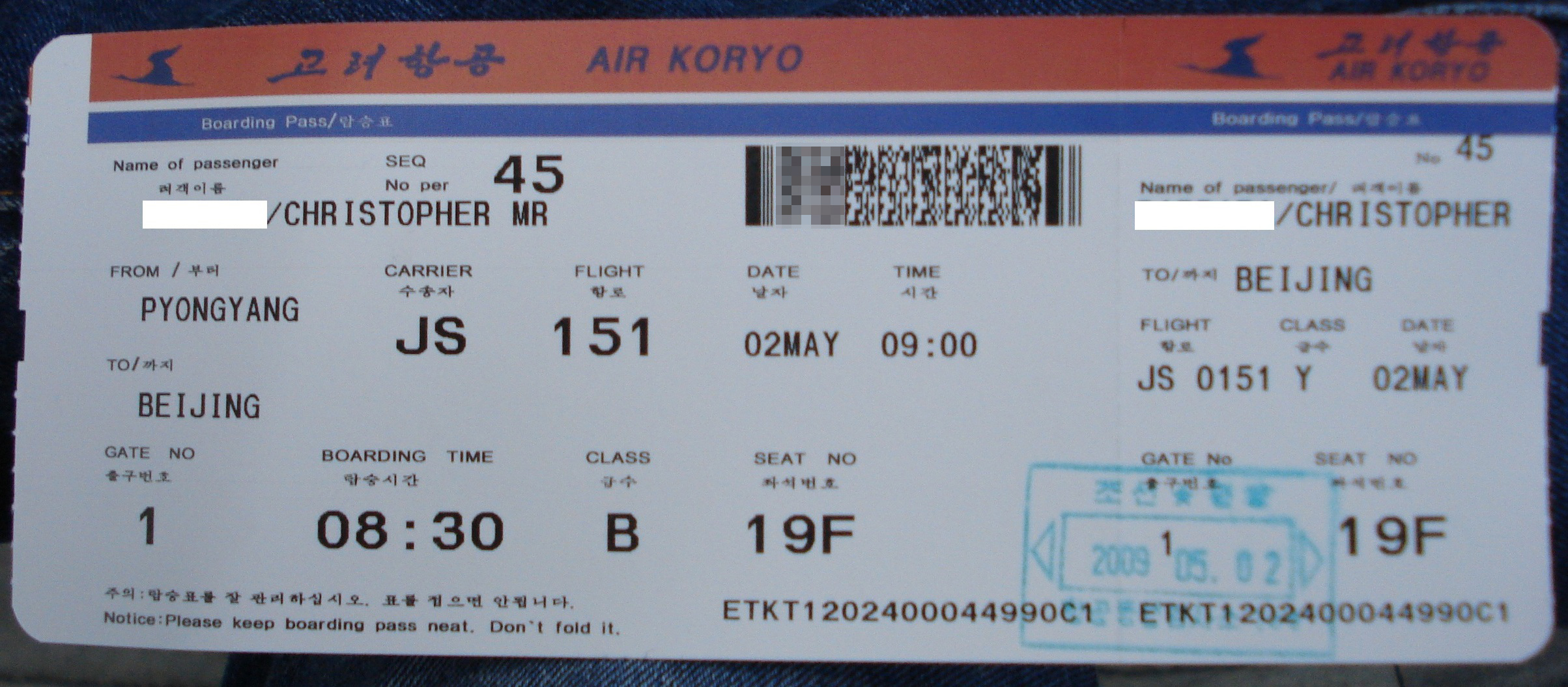 Air Koryo boarding card